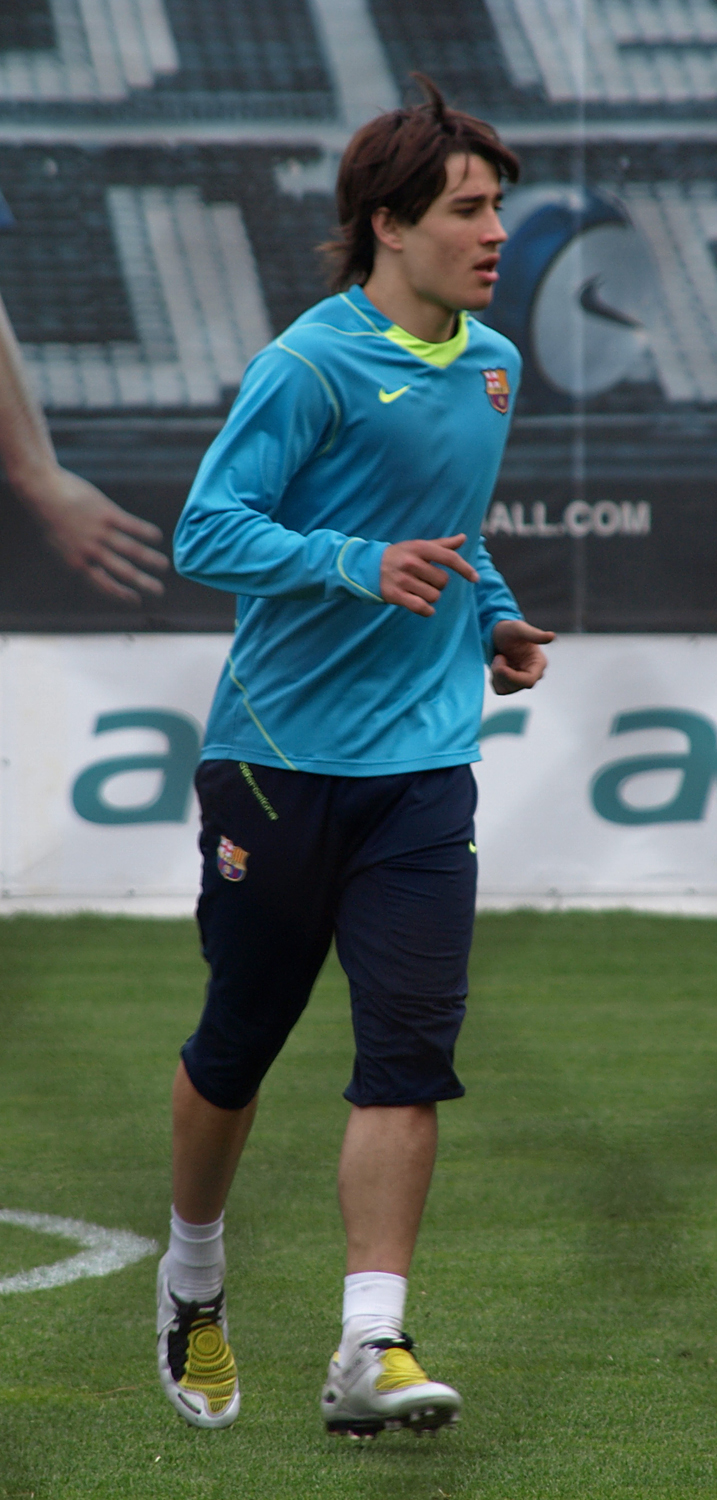 Bojan Krkić (pronounced [ˈbɔjan 'kr.kiʨ]) (Serbian Cyrillic: Бојан Кркић) (born August 28, 1990 in Linyola, Spain), is a 17-year-old Spanish footballer who plays for FC Barcelona.